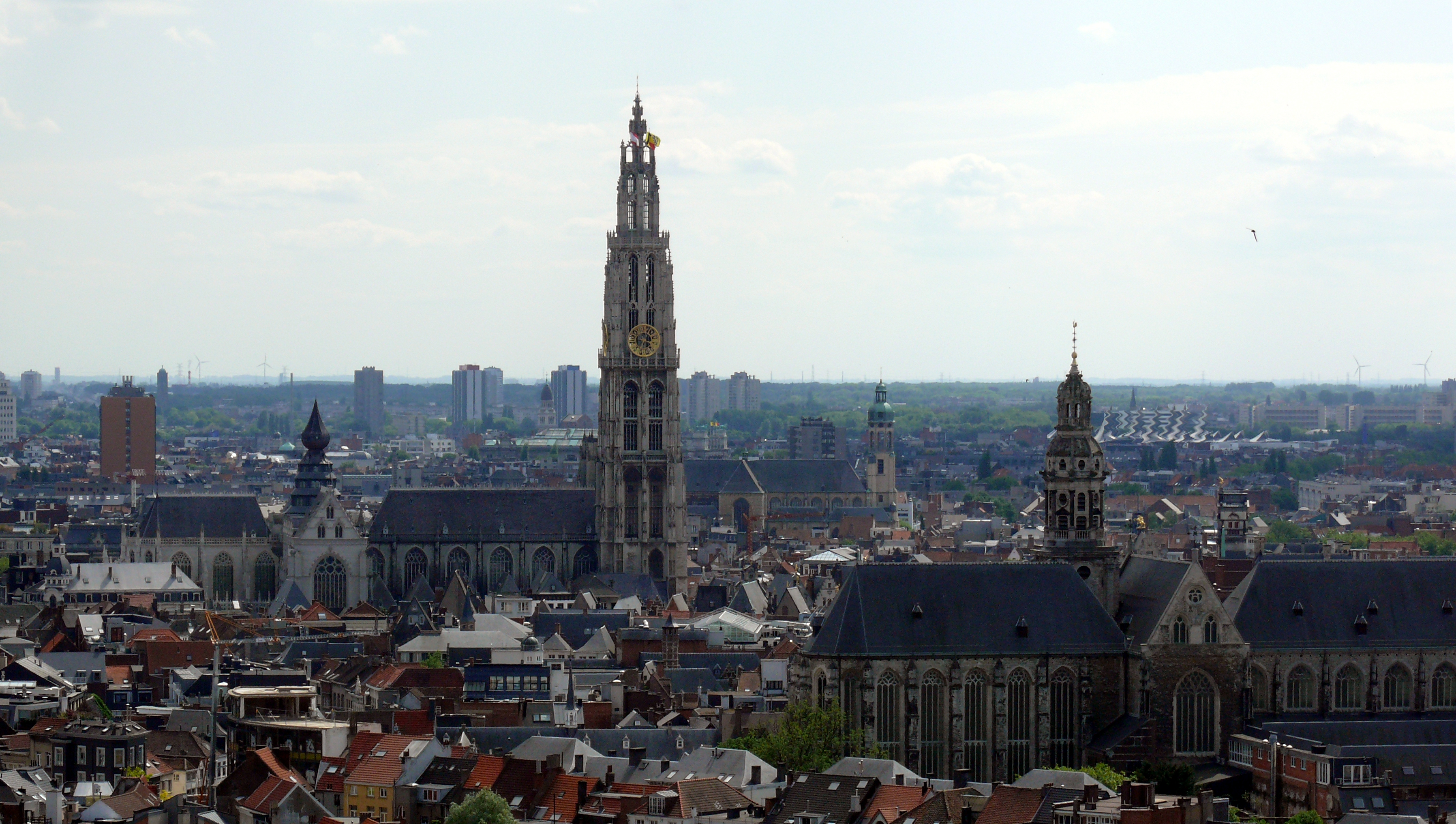 Antwerp as seen from the Museum Aan de Stroom (MAS), in the middle Our Lady's Cathedral, to the right Saint Paul's Church, in the background Saint Andrew's Church.